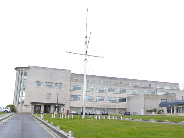 Old Admiralty Research Establishment Portland This is the old main building of the ARE Portland which has now been converted to business units